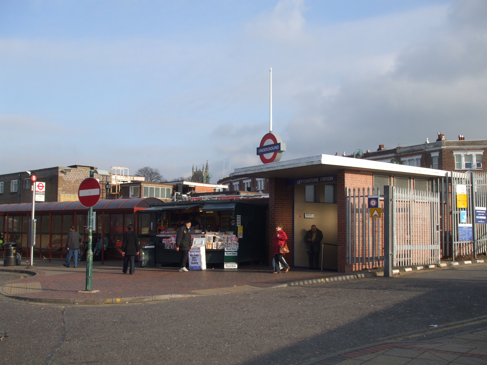 Leytonstone tube station western entrance facing Grove Green Road.